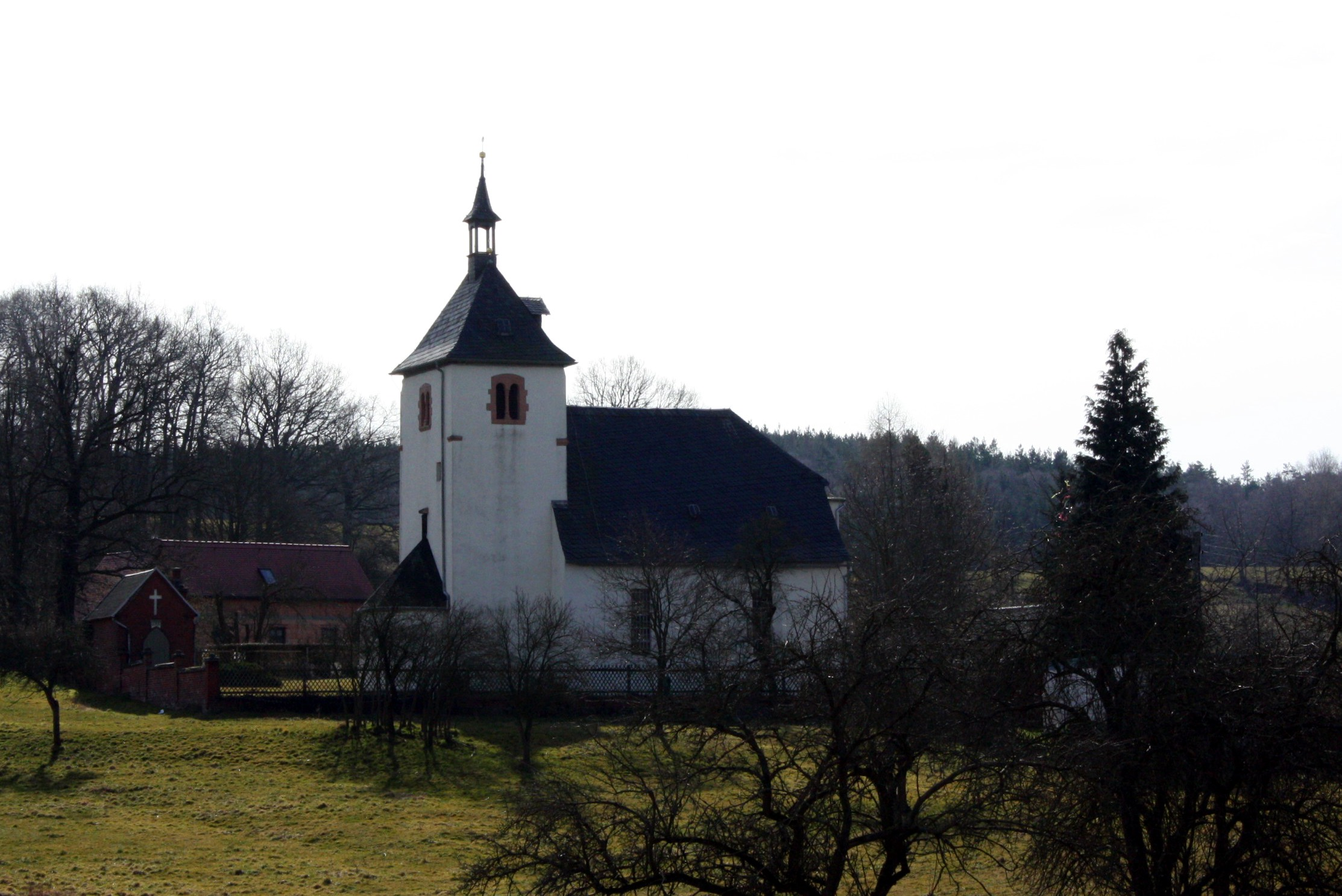 Church in Zedlitz-Seifersdorf near Gera/Thuringia